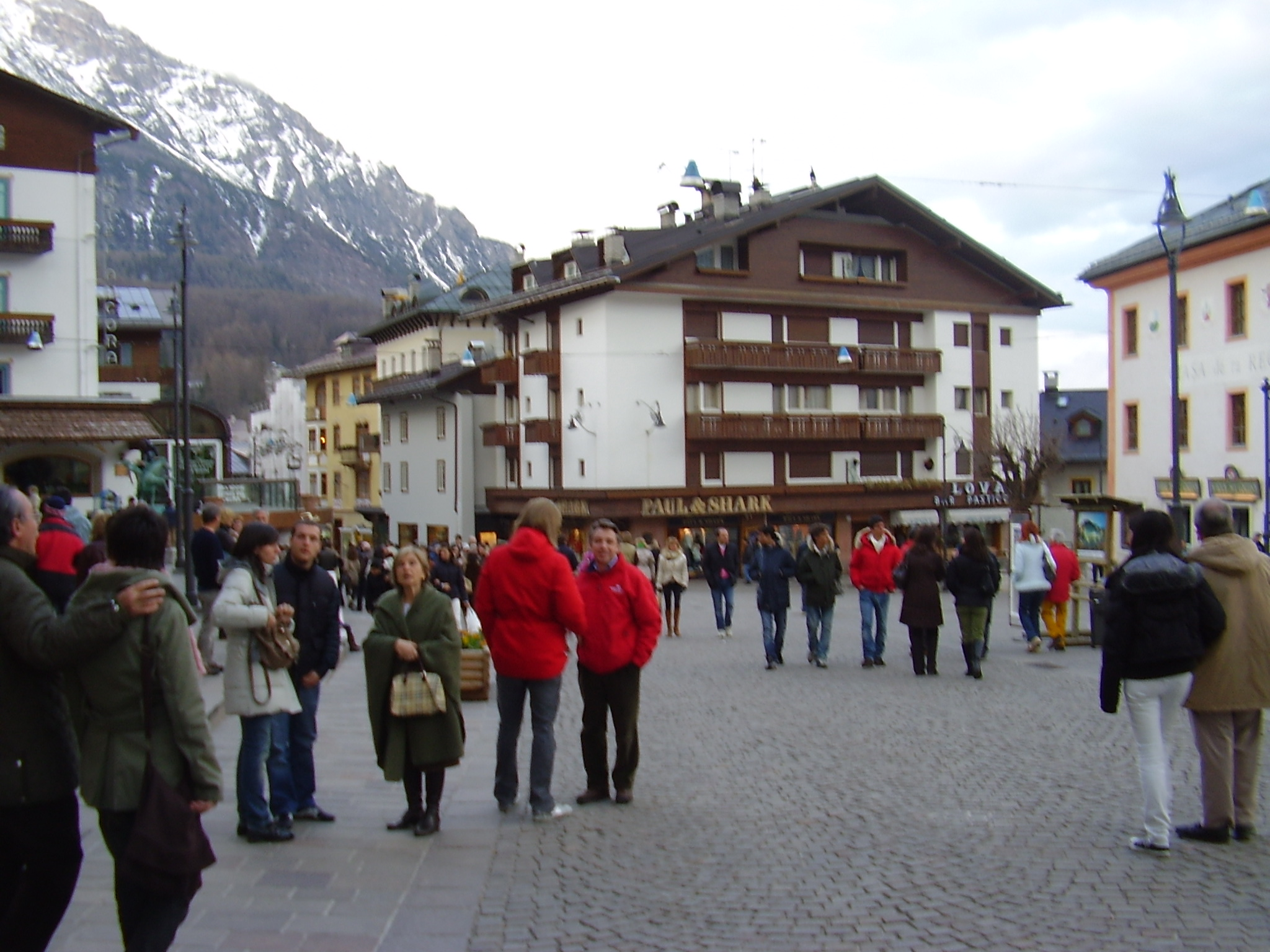 Corso Italia ("Italy Promenade") in Cortina d'Ampezzo, Itay.